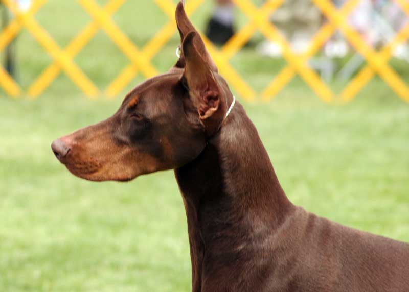 A red-coloured Dobermann at a conformation show.